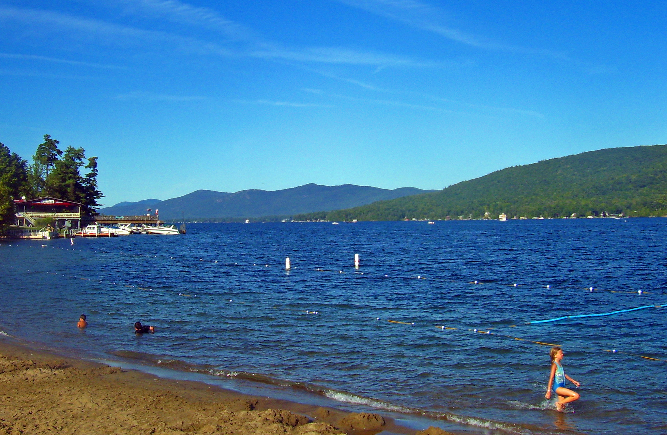 Lake George, NY, USA, from village beach at its south end. Shelving Rock, Buck Mountain and Pilot Knob in distance.